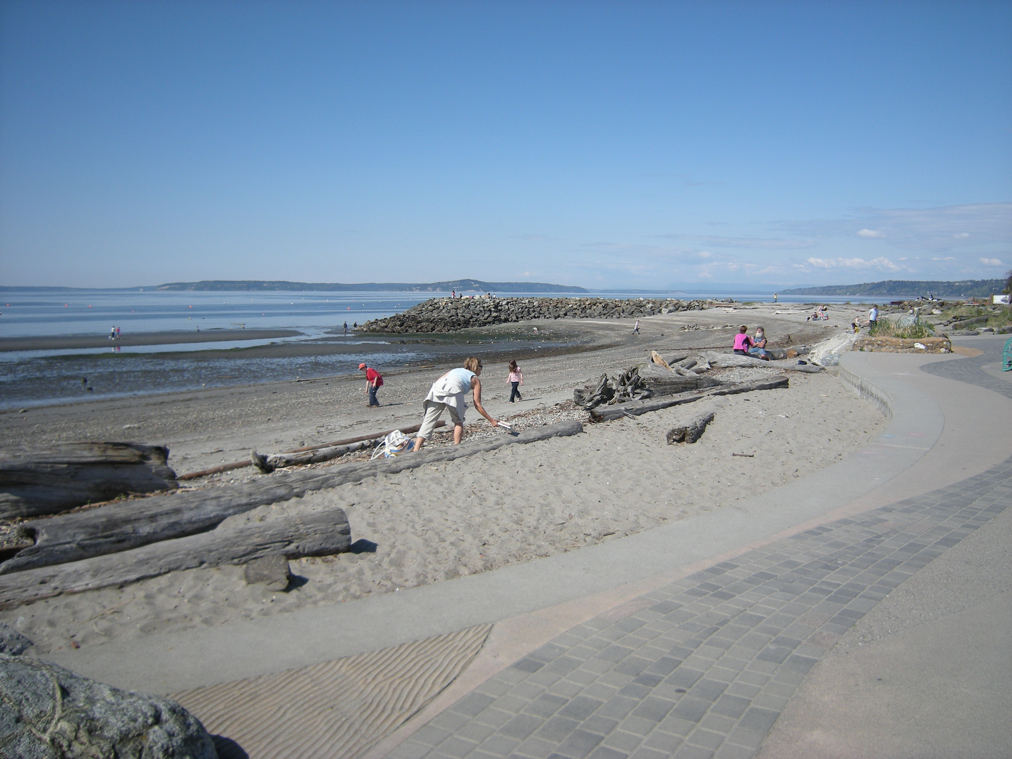 The beach at Brackett's Landing, near the end of Main Street, Edmonds, Washington.